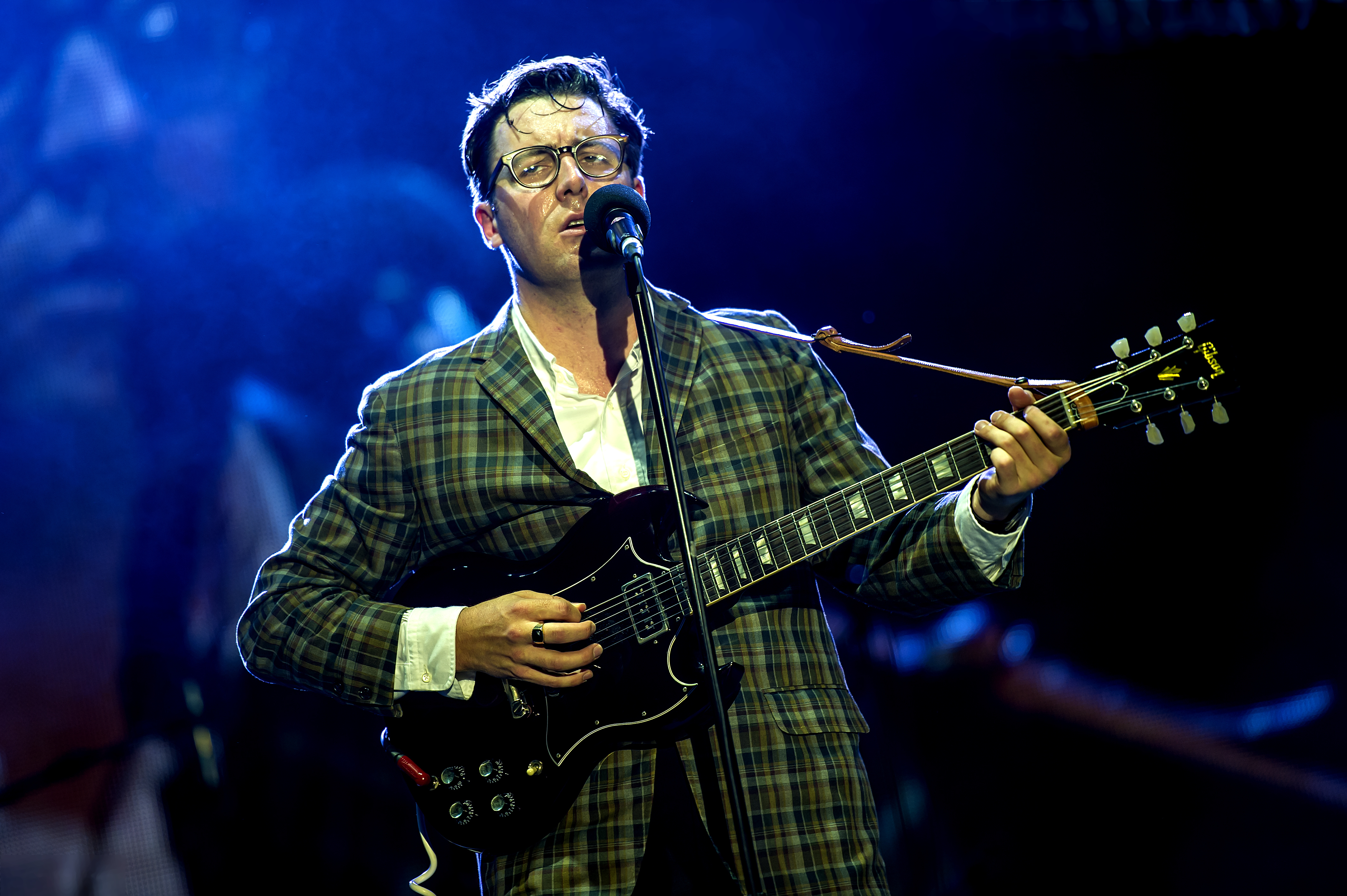 Please, feel free to comment. Much appreciated. Also, take a moment and visit my 500px and Flickr profiles